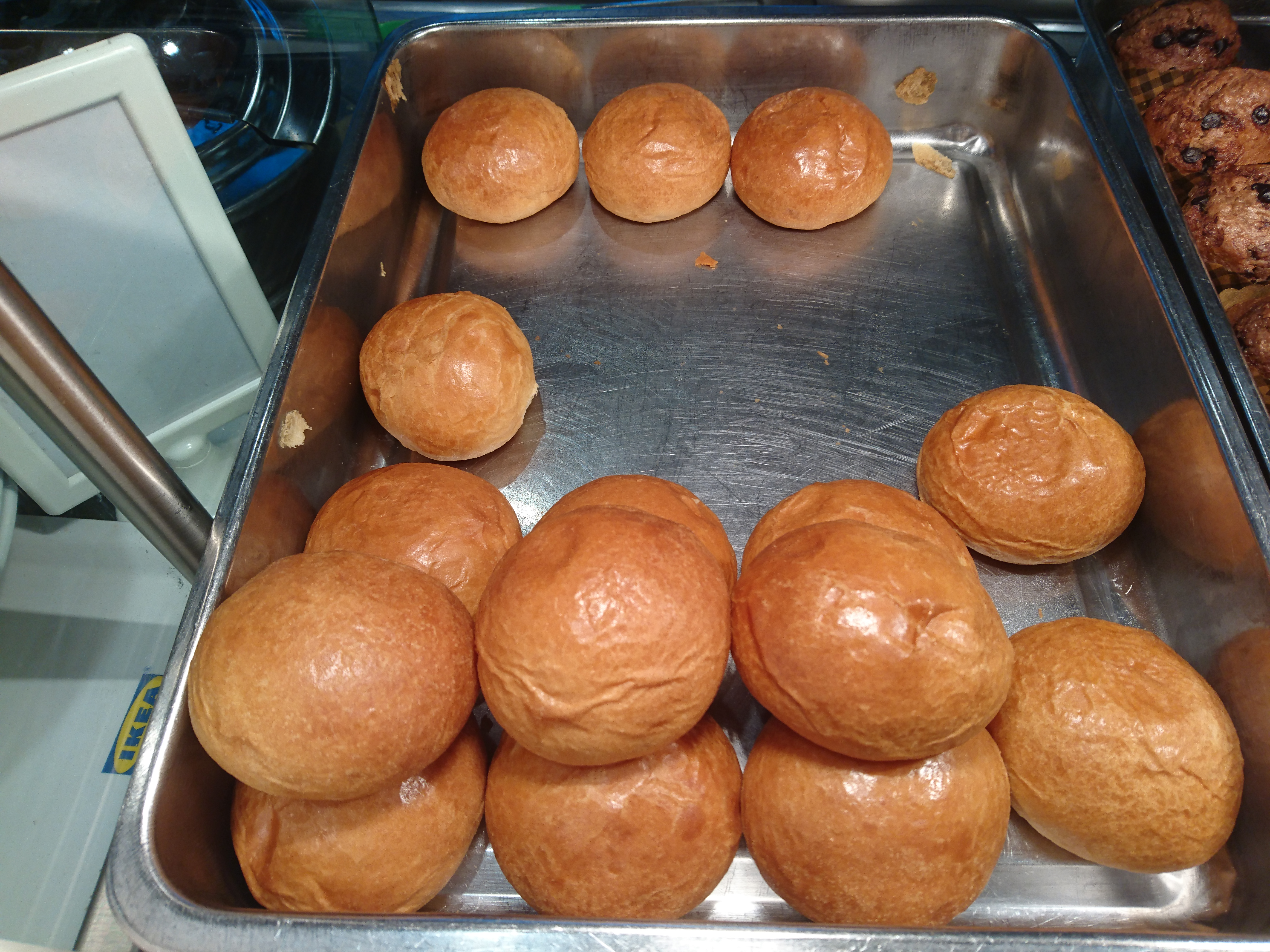 Tray of Sweet Buns